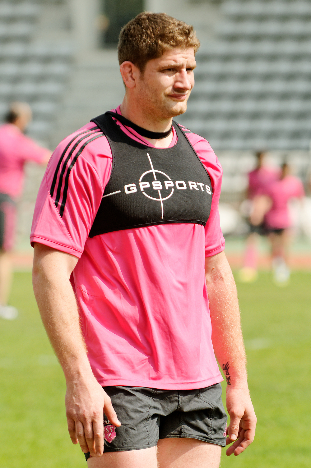 Pascal Papé during the Stade Français training session held at Stade Charléty, Paris on 3 April 2012.